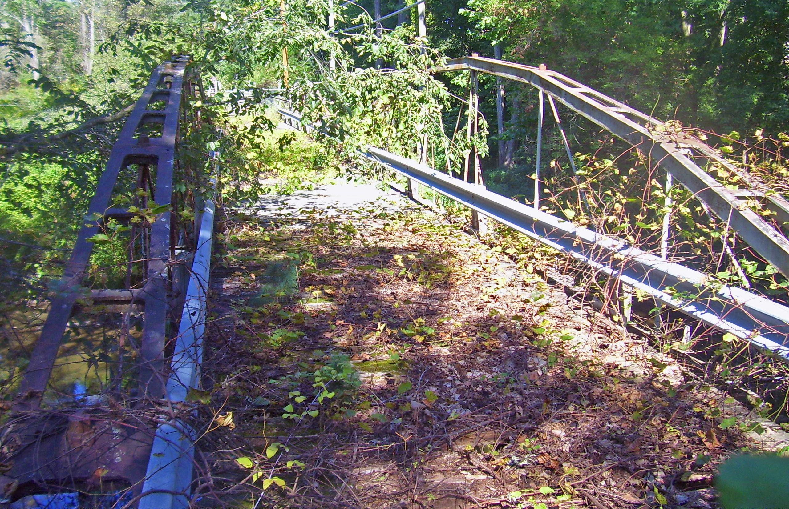 Shaw Bridge, Claverack, NY, USA. The only double-span Whipple bowstring-truss bridge extant in the nation.